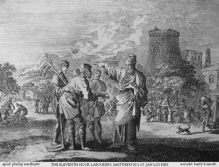 An etching by Jan Luyken illustrating Matthew 20:1-15 in the Bowyer Bible, Bolton, England.